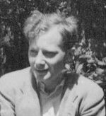 Photo taken shortly before/after his marriage, sitting beside his wife (cropped out), probably taken by his mother. For inclusion in the Henry Whitehead article Author unknown, probably Whitehead's mother, long deceased. Source: Whitehead's son Oliver who has emailed me: To Whom It May Concern, I agree to license this photograph under the Creative Commons Attribution-Share Alike 2.5 license Sincerely, Oliver Whitehead Licensing